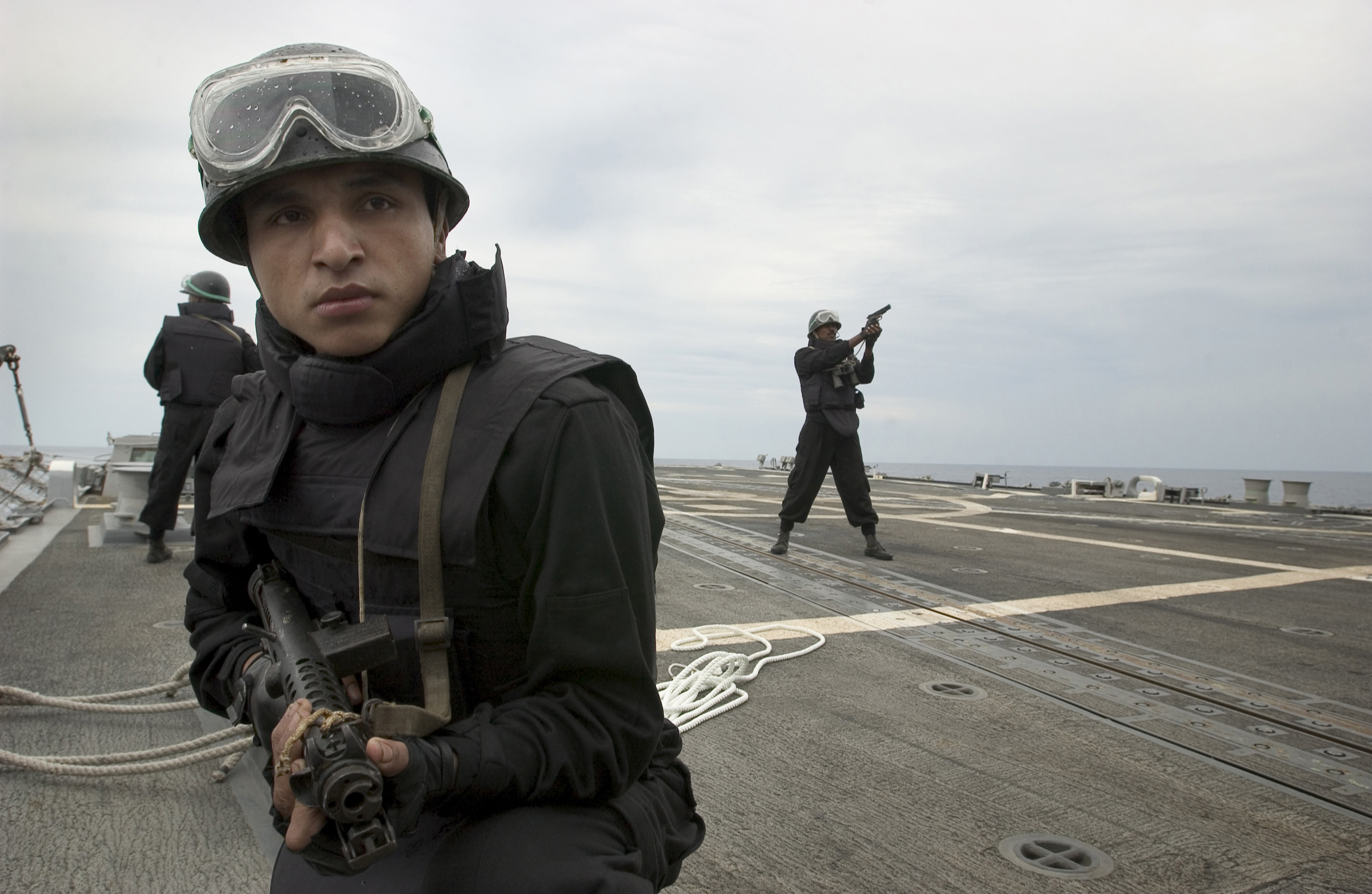 Indian navy sailor B.K. Gurung holds his position on the flight deck of USS Mustin (DDG 89) during a visit, board, search and seizure drill April 7, 2007, while under way in the Philippine Sea. The drill is part of exercise Malabar 07-01, a U.S. and Indian naval exercise held off the coast of Okinawa, Japan.